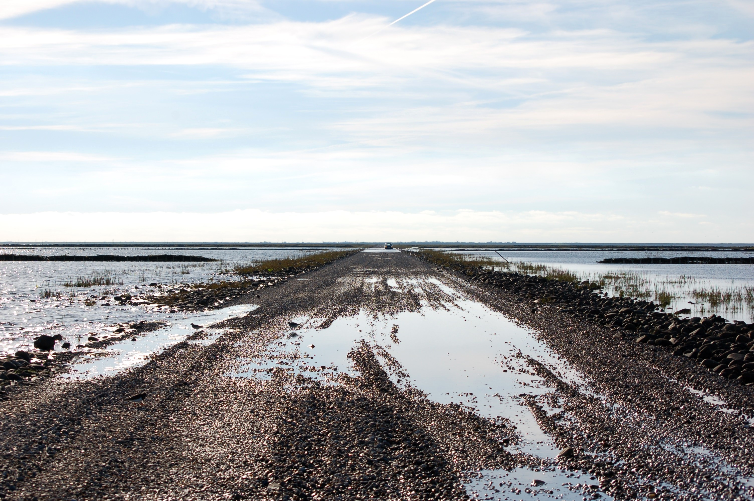 Causeway to Mandø, Denmark.